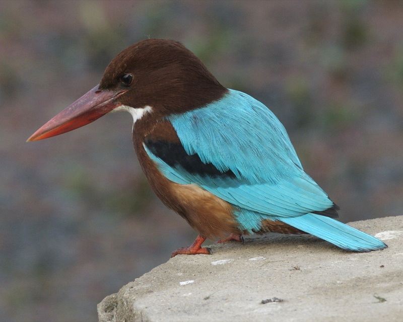 White-throated Kingfisher Halcyon smyrnensis ssp Halcyon smyrnensis fusca Keoladeo National Park, Rajastan, India 7th. January 2009 690V0477